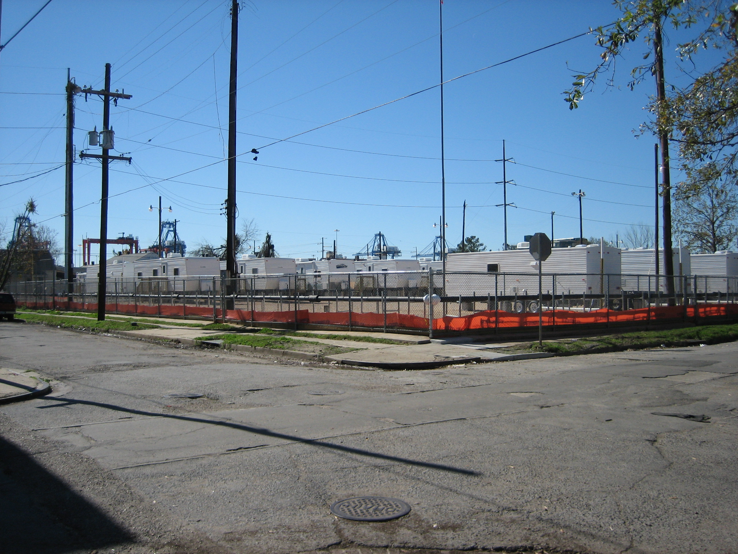 New Orleans after Hurricane Katrina: Park in unflooded part of town has been turned into FEMA trailer camp for temporary housing for people whose homes were destroyed or are too damaged to live in at present. Wisner Park & Playground. Riverfront port cranes visible in the distance. Photo by Infrogmation, January 2006